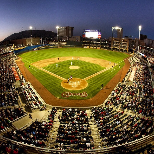 Southwest University Park, home of the El Paso Chihuahuas minor league baseball team of the Pacific Coast League